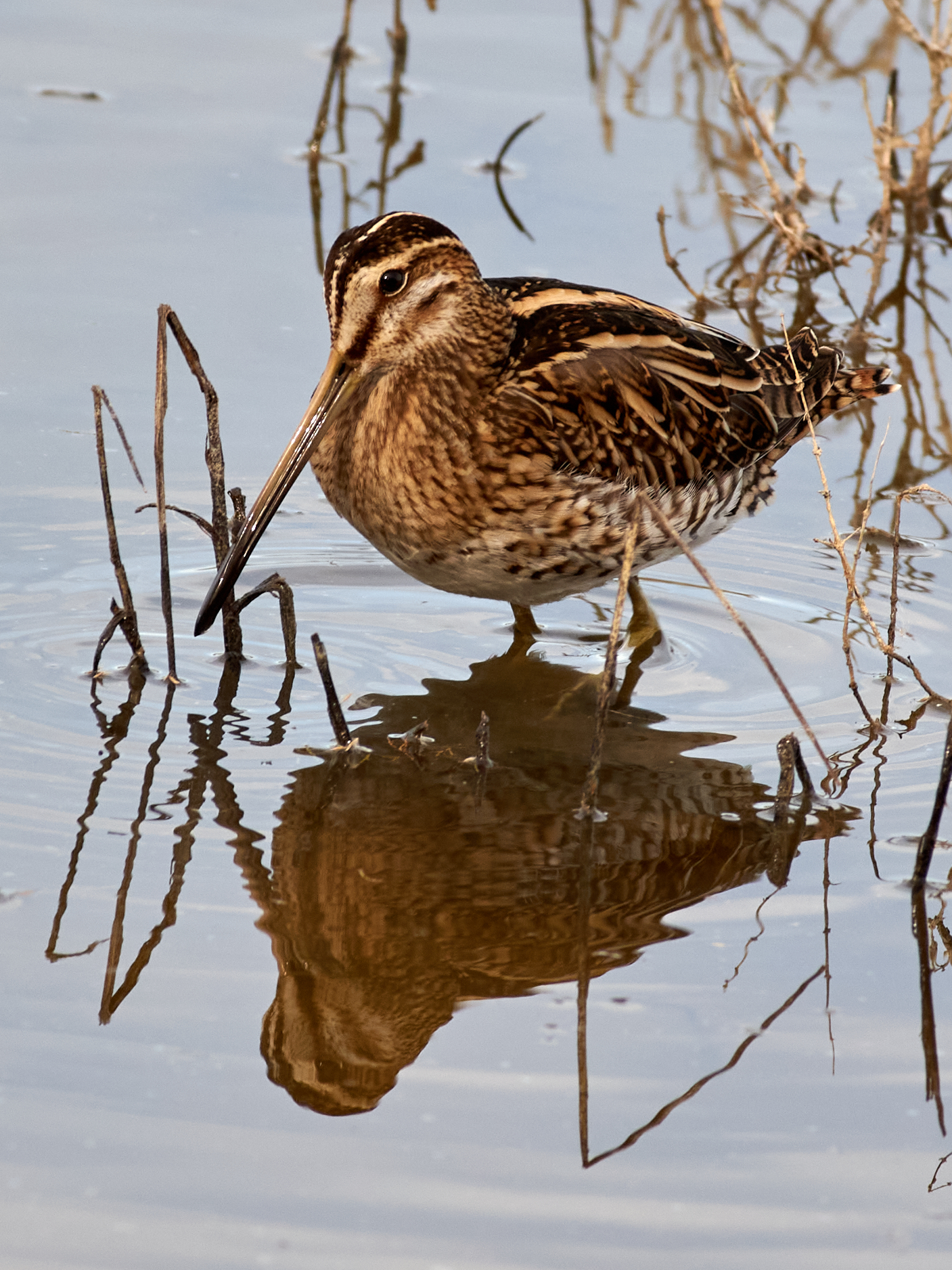 Common snipe (Gallinago gallinago), S'Albufera, Mallorca, Spain